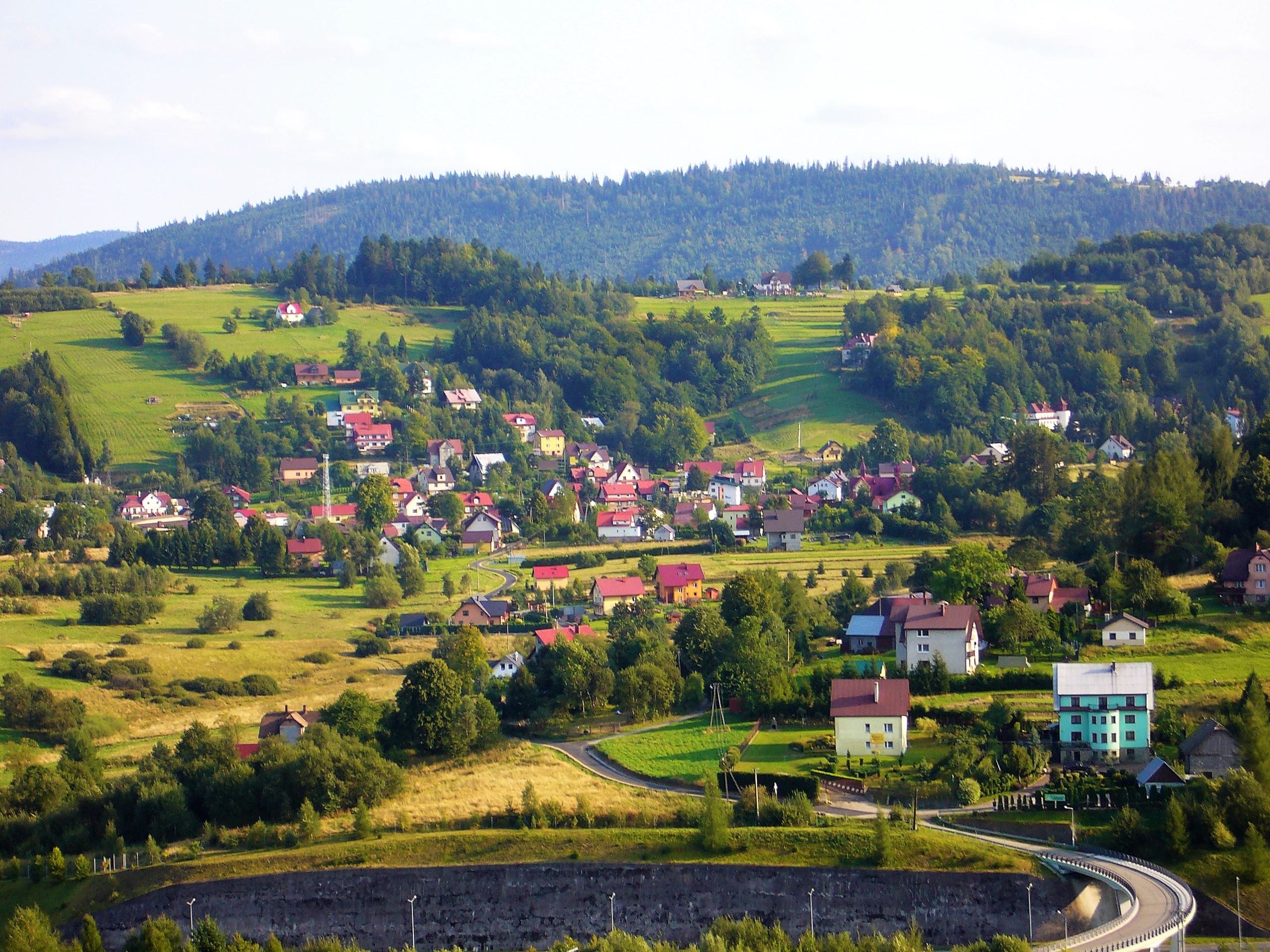 The general view of Zwardoń, Poland from Sołowy Wierch.